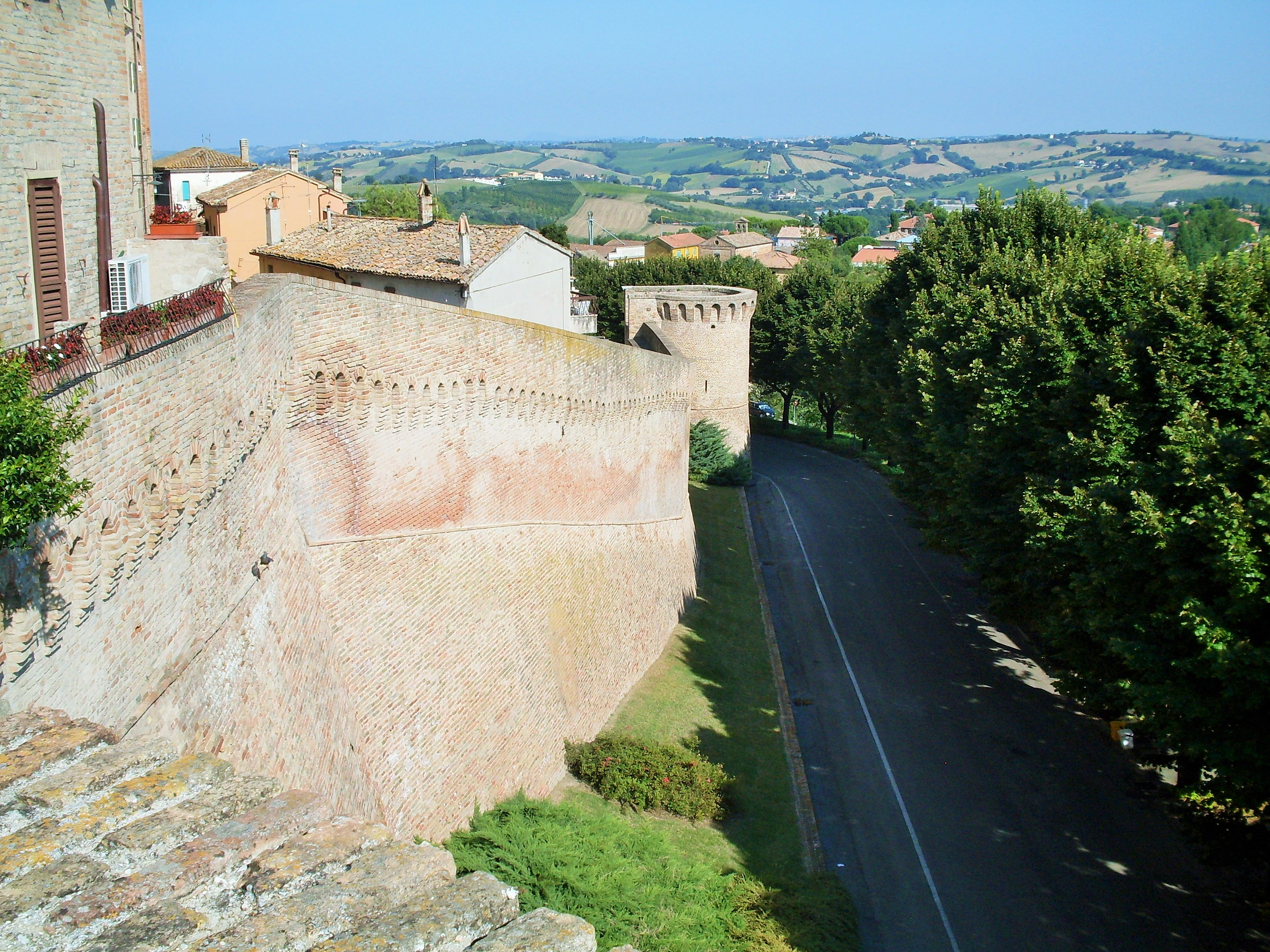 Mura Corinaldo